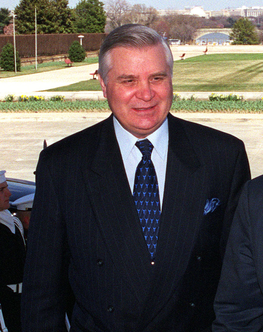 Anatoliy Zlenko, Minister of Foreign Affairs of Ukraine in 1990—1994 та 2000—2003, in Washington, D.C., March 2001